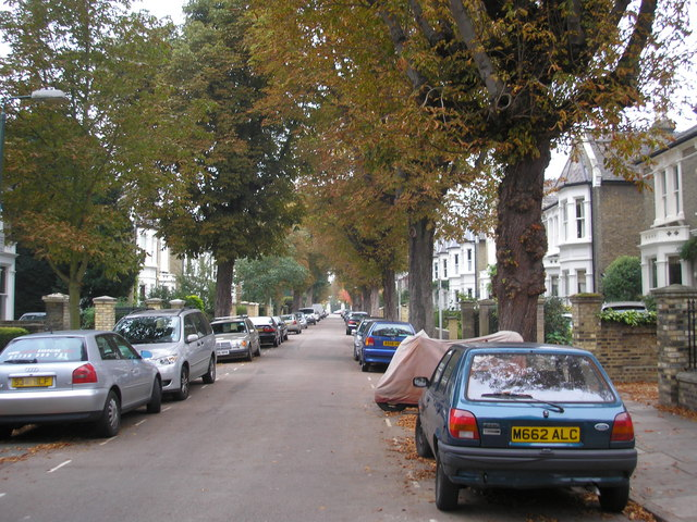 Lichfield Road, Kew Autumn colours beginning to show as we look west towards the Victoria Gate of the Royal Botanic Gardens. Such roads were not built for the purpose of parking motor cars.